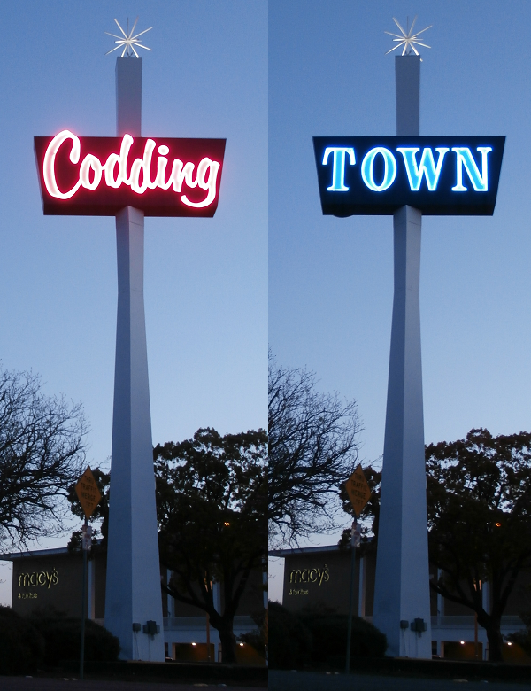 The rotating sign on the east end of Coddingtown Mall, Santa Rosa, California; anchor store Macy's is seen in the background